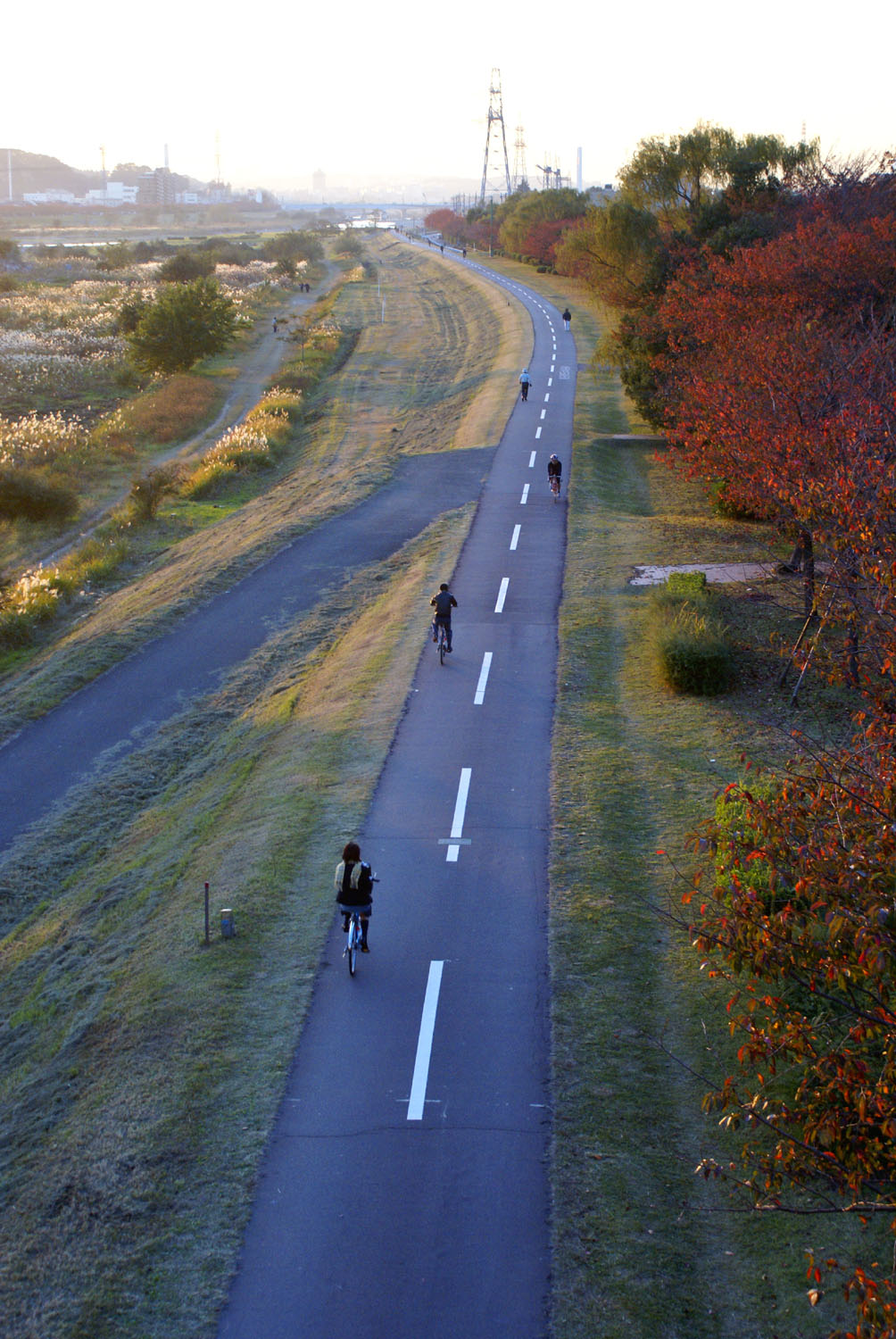 Tamagawa Cycling Roads. View from Inagi Ohashi.